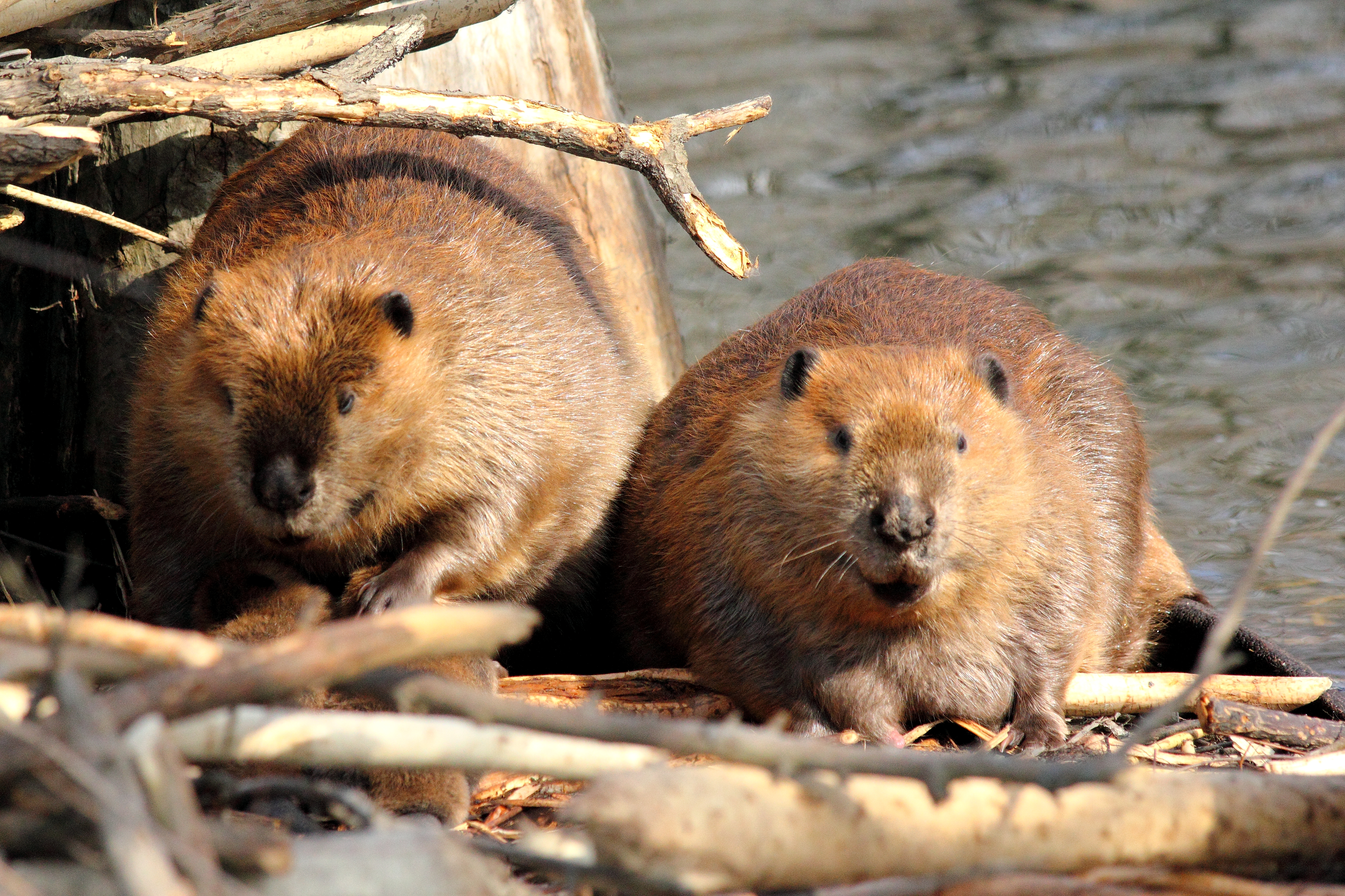 BlackMagic